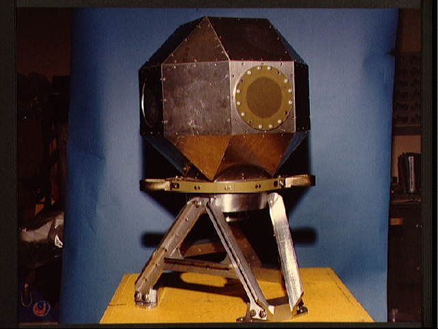 NUSAT 1 (Northern Utah Satellite 1)